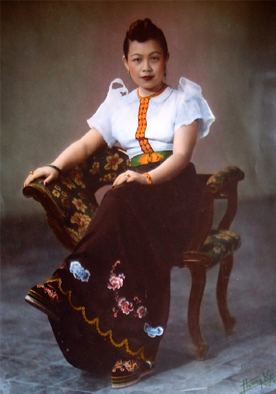 SA Deo Nang Toï Seigneur du Pays Taï - Hanoi 1950